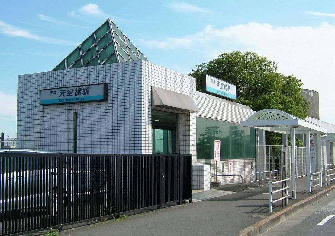 The entrance to Tenkubashi Station on the Keikyu Airport Line